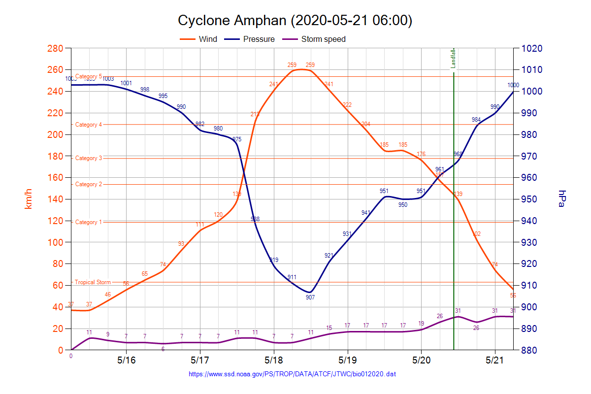 Cyclone Amphan (2020) chart